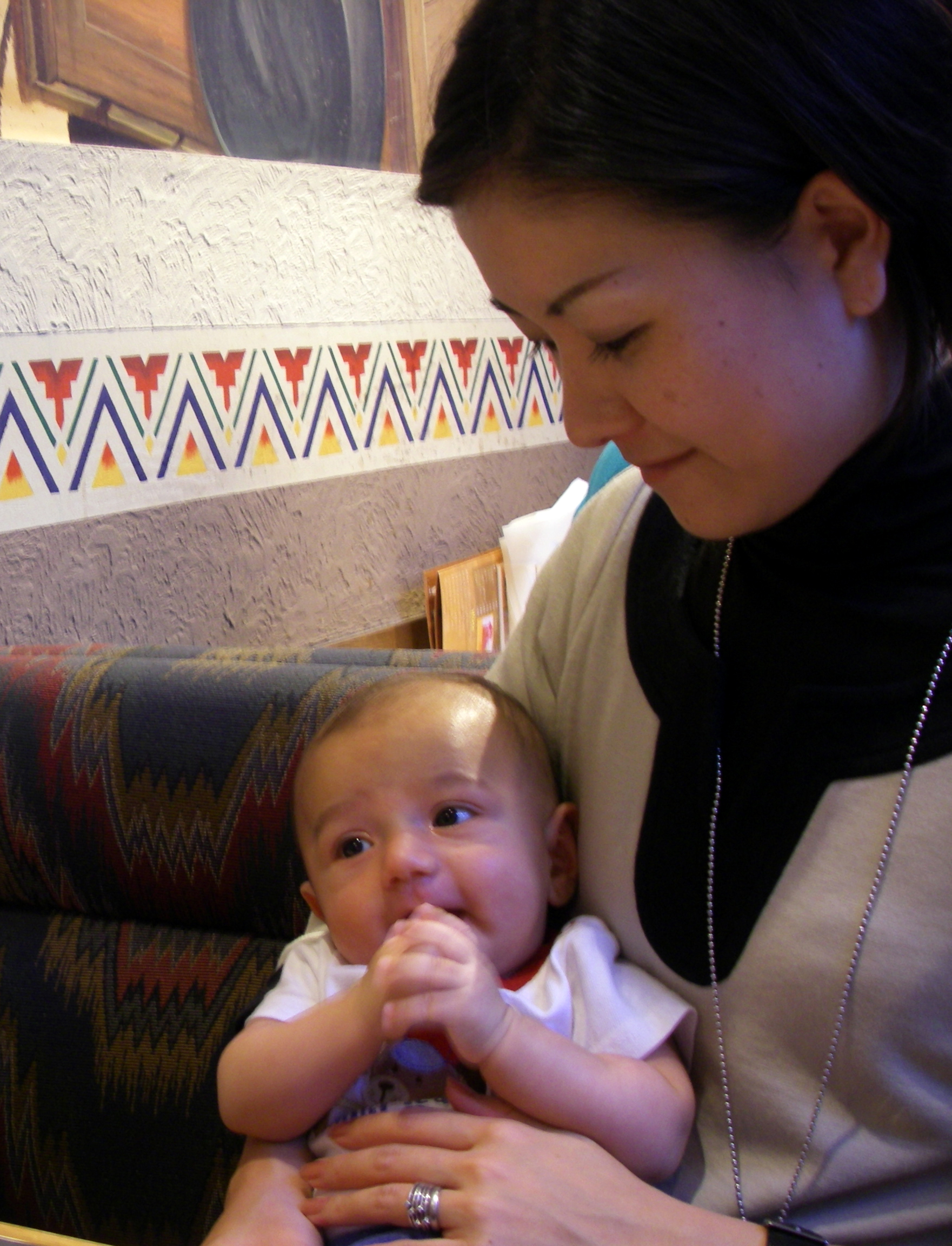 The woman and the child are not related in any way. How do I know? I am the photographer and the father of the child.